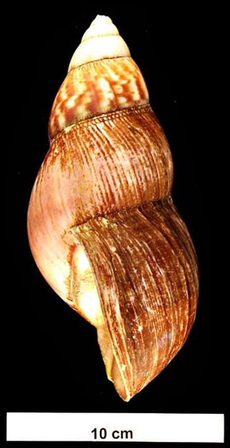 Photo of the lateral view of the shell of Achatina fulica. Locality: Papua New Guinea, Keravat, New Britain, Jun 1951, Dun.